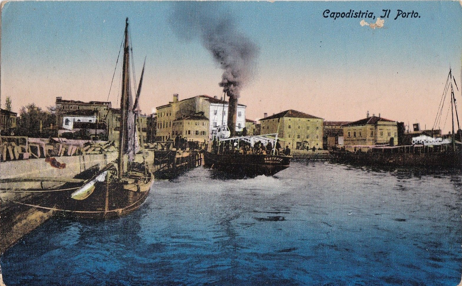 Postcard of Koper.